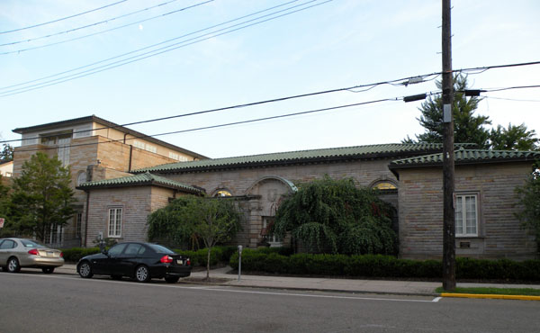 Picture of the Sewickley Public Library located at 500 Thorn Street in Sewickley, Pennsylvania, on July 19, 2010. The library was built in 1923 and designed by architect Henry D. Gilchrist. An annex was added in 2000. The library is on the List of Pittsburgh Landmarks recognized by the Pittsburgh History and Landmarks Foundation (PHLF).